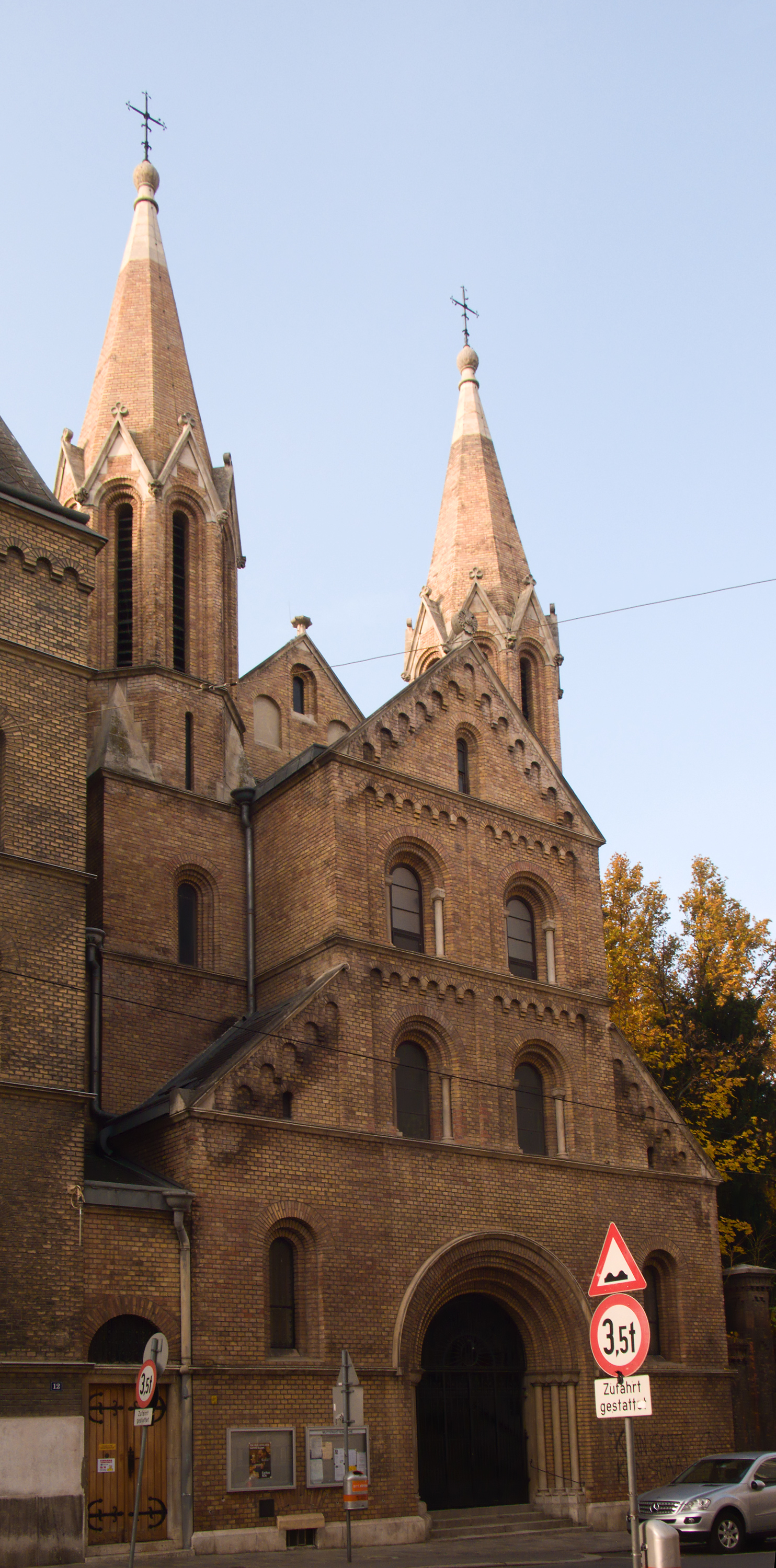 Muttergotteskirche in Vienna, Landstraße. Also called parish church Jacquingasse.